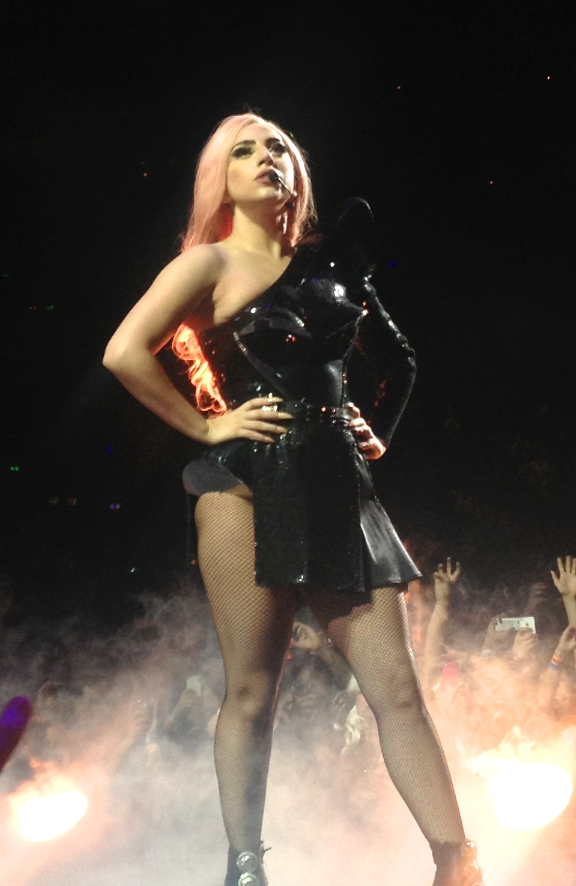 Author: Anonymous5454, Gaga in Dallas, Texas during her American leg of the Born This Way Ball tour